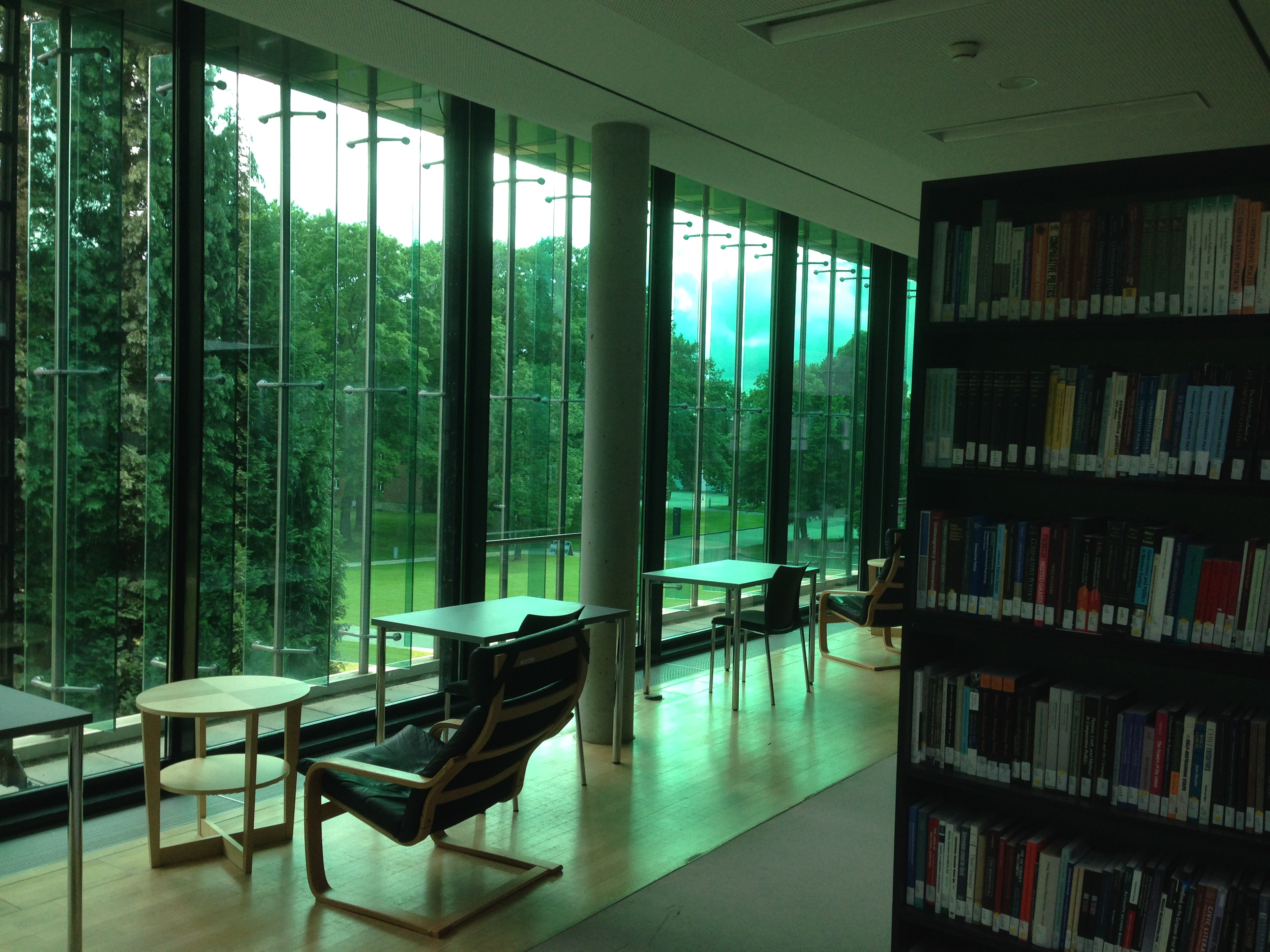 Library of Jacobs University Bremen